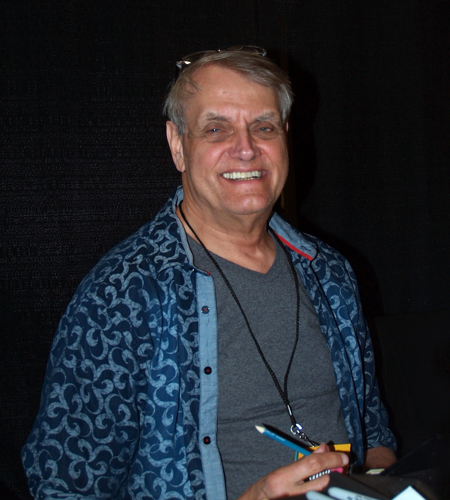 Comics artist Herb Trimpe at the Meadowlands Convention Center in Secaucus, New Jersey on April 11, 2015, Day 1 of the 2015 East Coast Comiccon. This photo was created by Luigi Novi. It is not in the public domain, and use of this file outside of the licensing terms is a copyright violation.